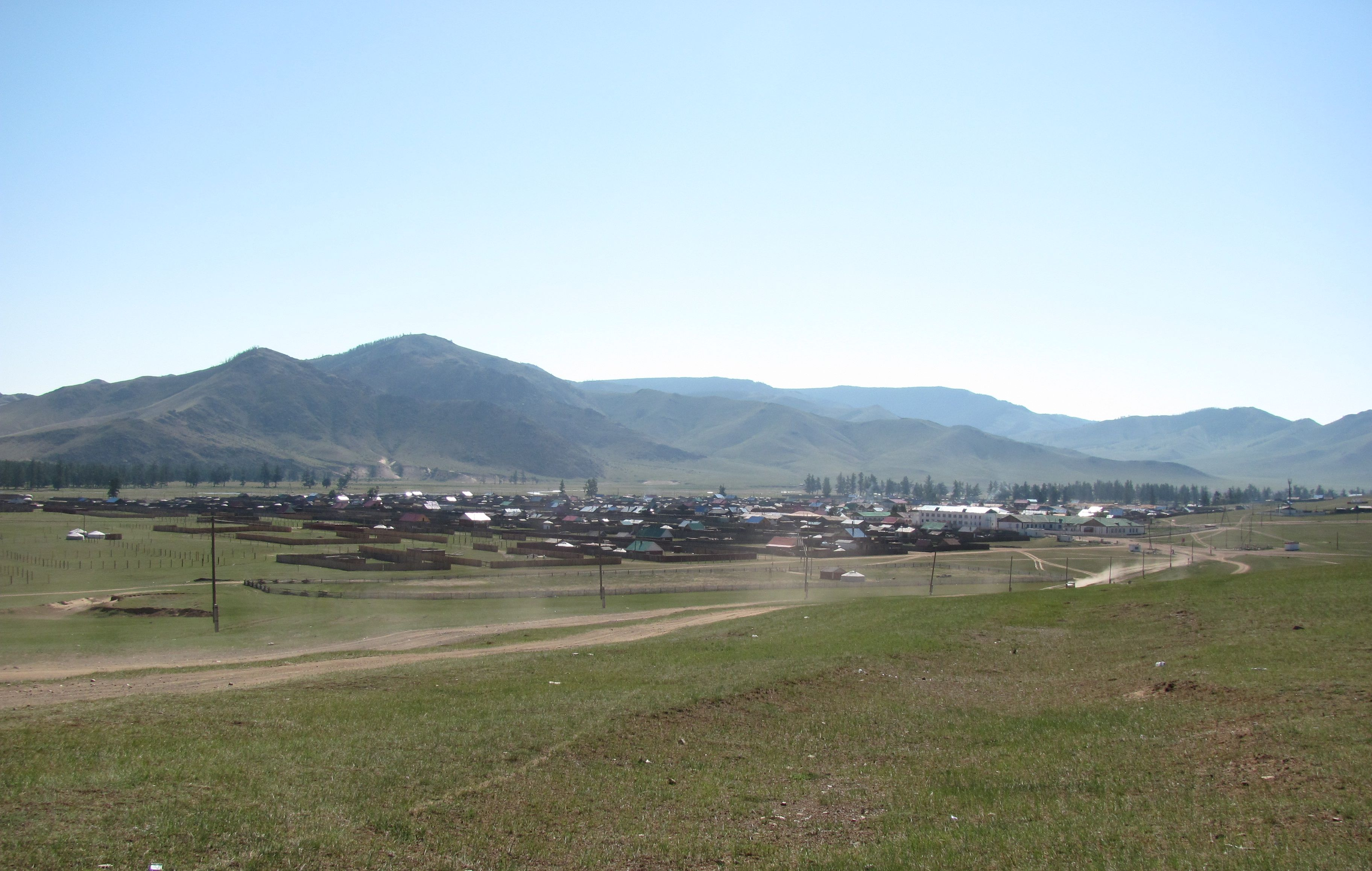 General view of the Town of Jargalant. Khövsgöl Aimag, Mongolia.